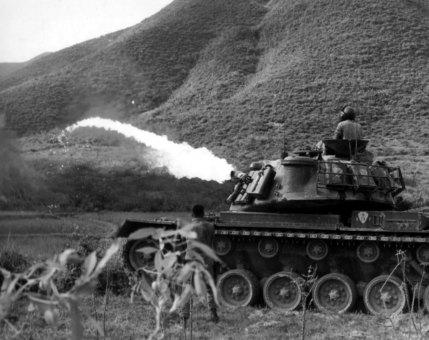 3rd Marine Division – U.S. Marine Corps Flamethrower Tank in Action near Da Nang. The U.S. Army no longer had flamethrower tanks but the Marine Corps sent several to Vietnam.